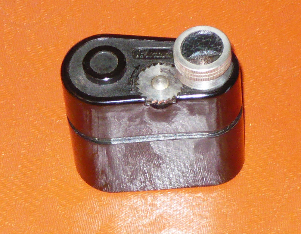 Photavit film loader